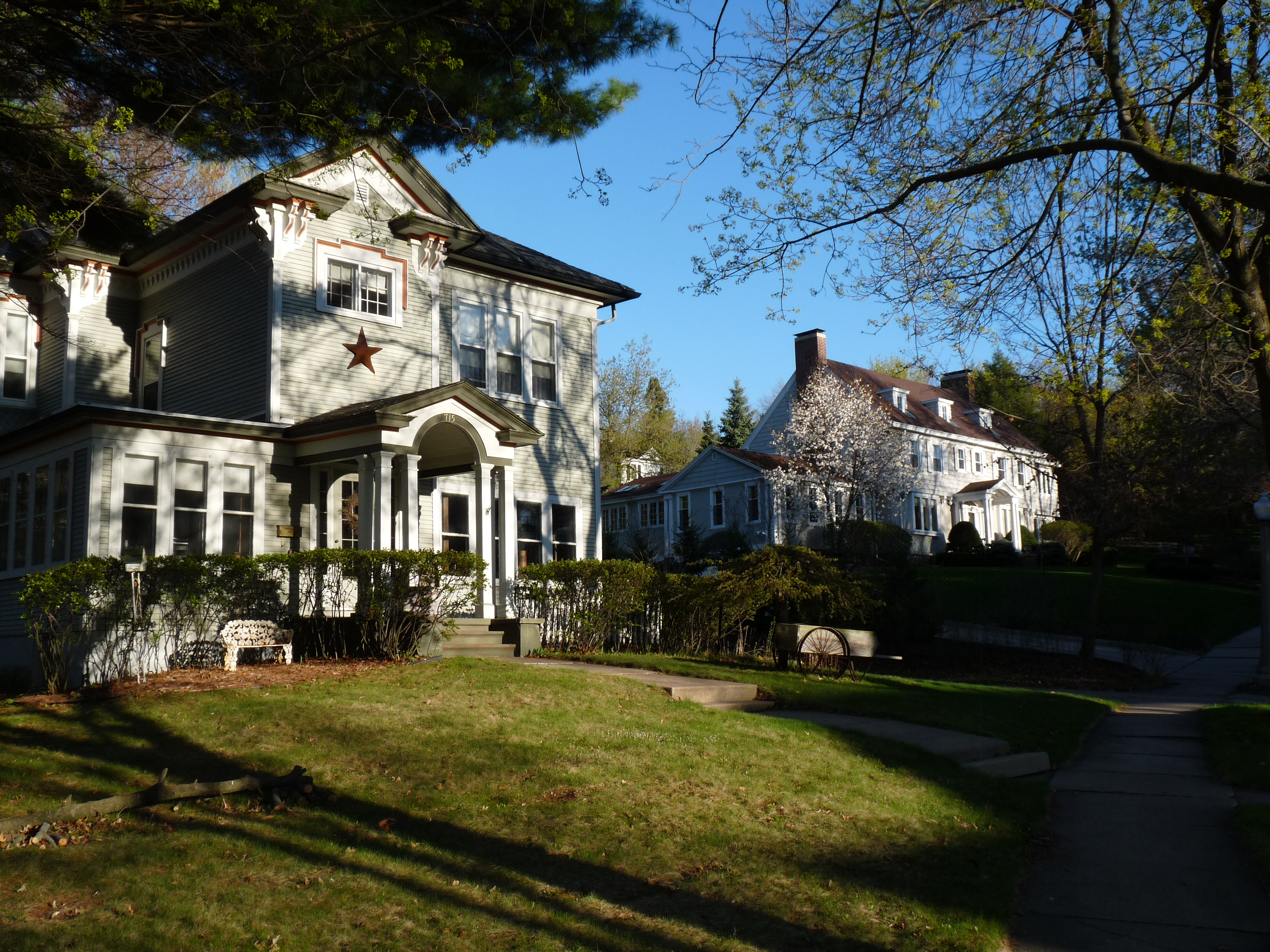 The East Hill Residential Historic District in Wausau Wisconsin is a large set of historic homes of prominent citizens on a hill overlooking the downtown, with about 165 contributing properties built from 1883 to 1945. The district is listed on the National Register of Historic Places.